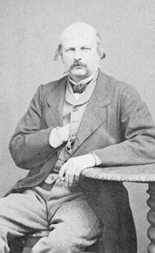 Adam Prażmowski (1821-1885), Polish astronomer and businessman